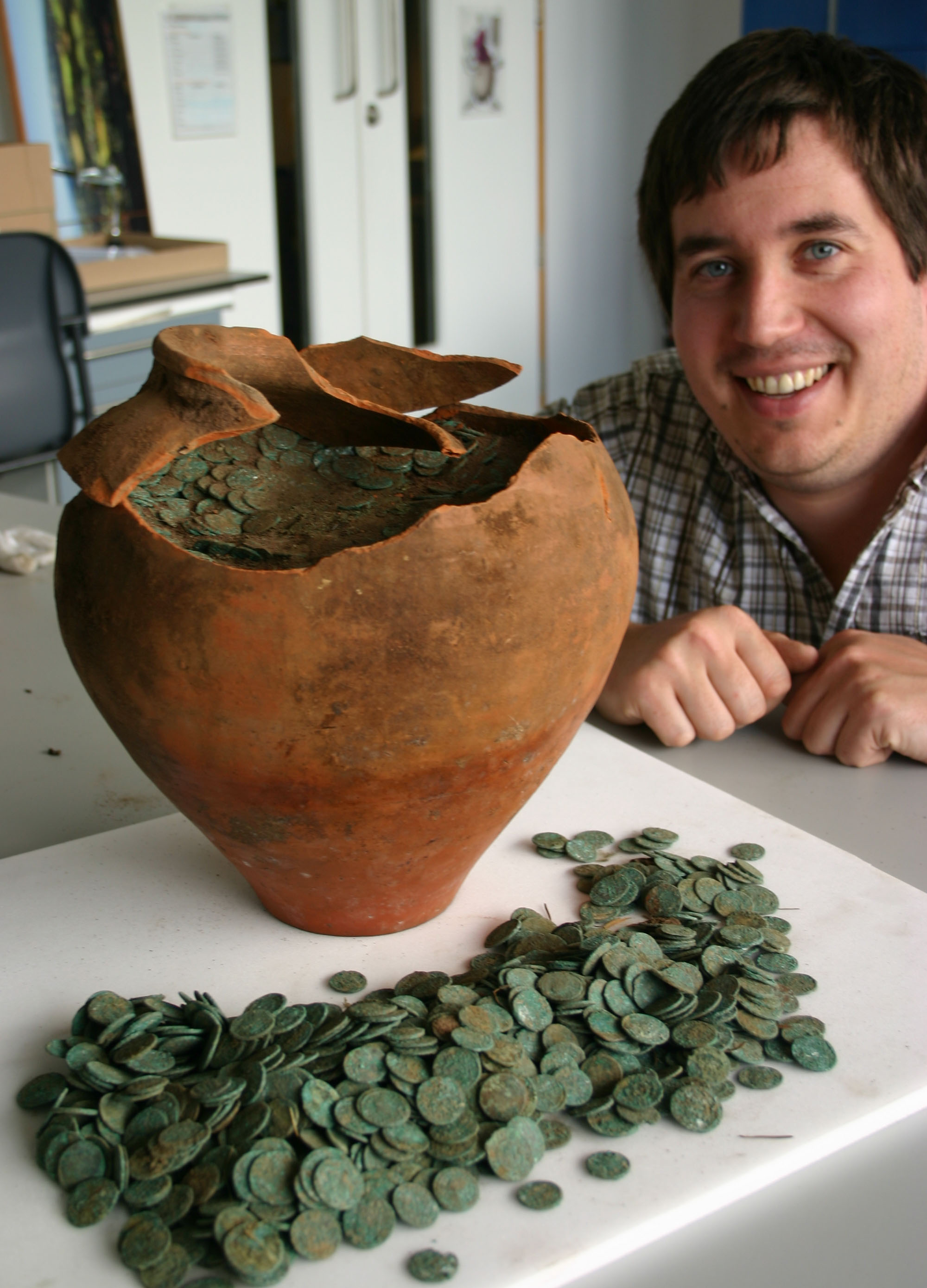 Peter Reavill with the coin hoard Added from Flickr stream. See the source, Frome Hoard and Portable Antiquities Scheme for more details.